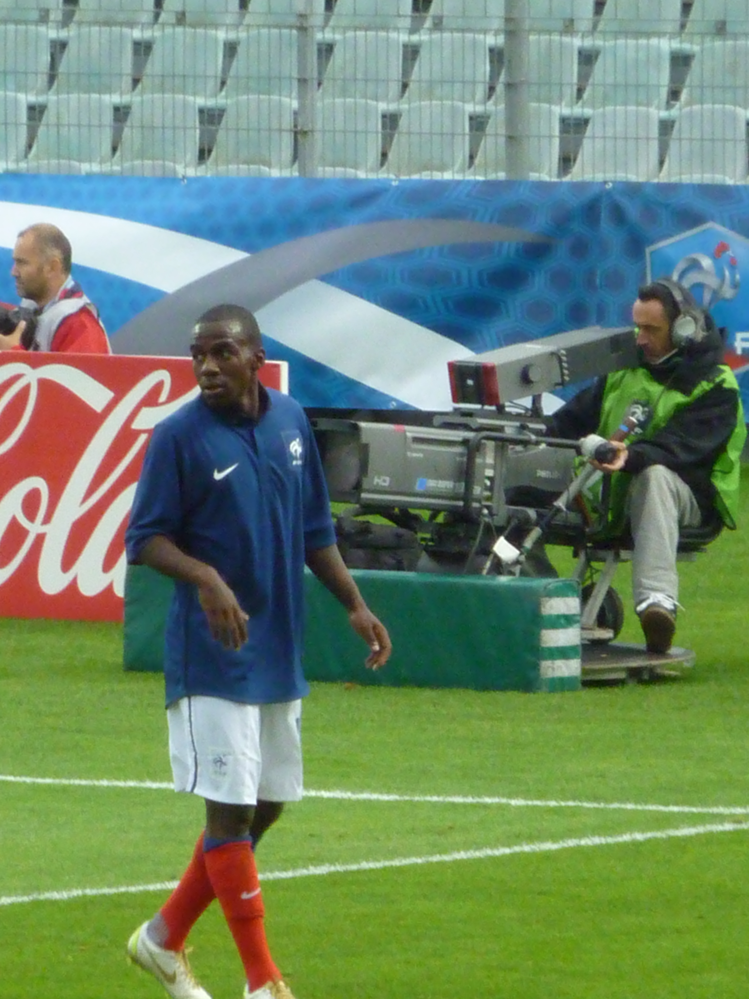 Gaël Kakuta, midfielder of the French U21 national team. Qualifier against Kazakhstan in Clermont-Ferrand.